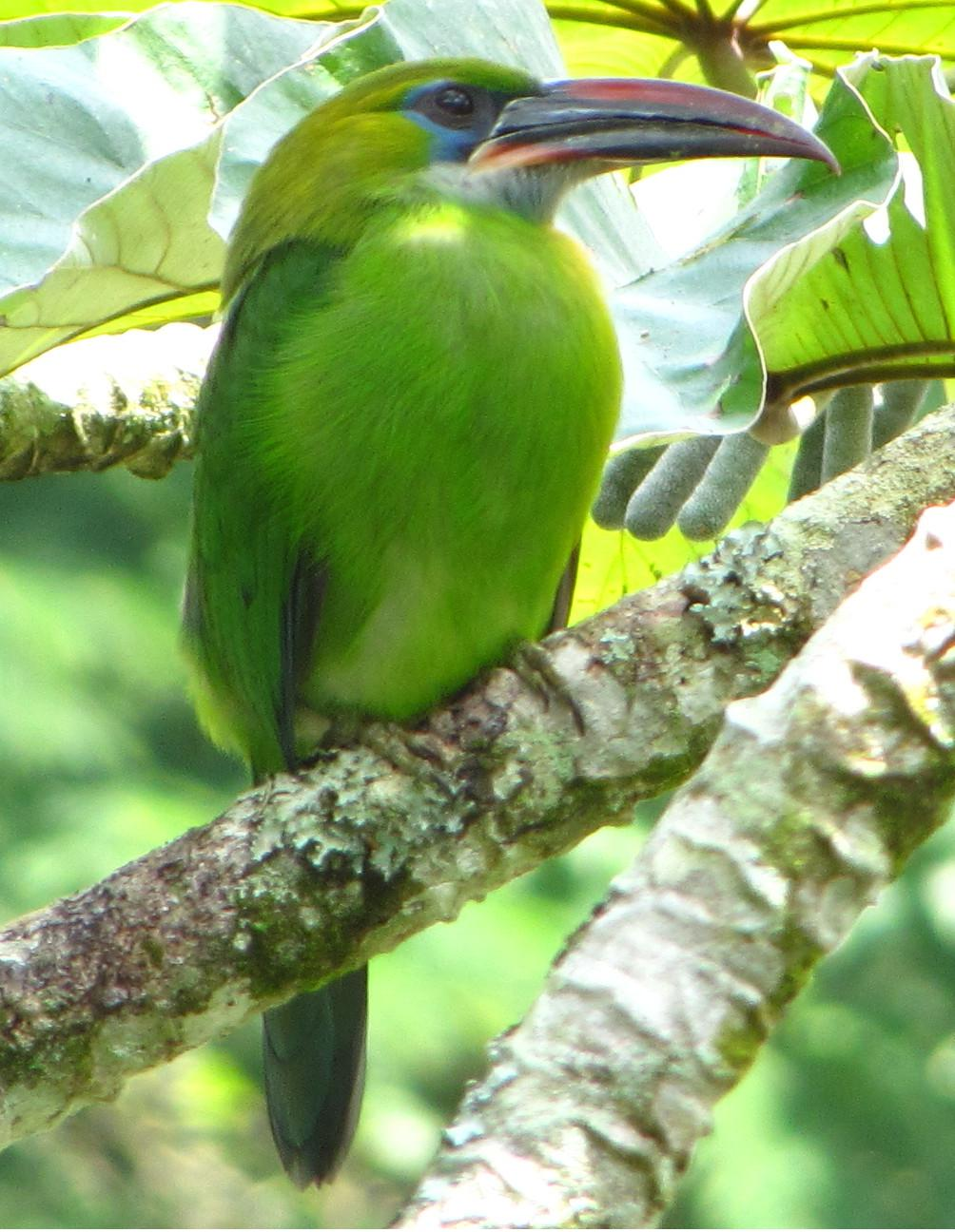 Groove-billed Toucanet at Rancho Grande Biological Station, Henri Pittier National Park, Aragua State, Venezuela.